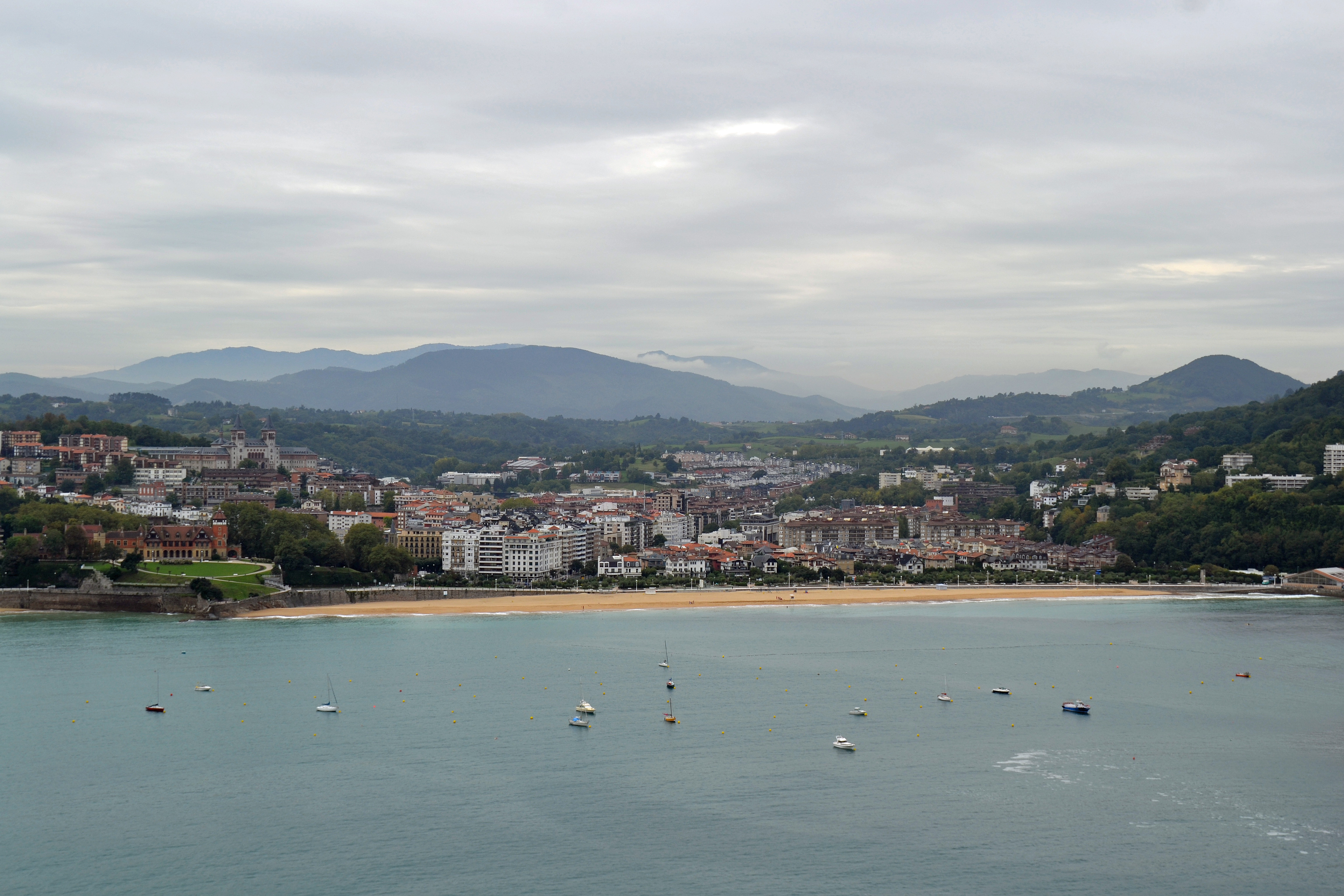 Antigua or Antiguo neighborhood. Donostia-Saint Sebastian, Gipuzkoa. Basque Country.